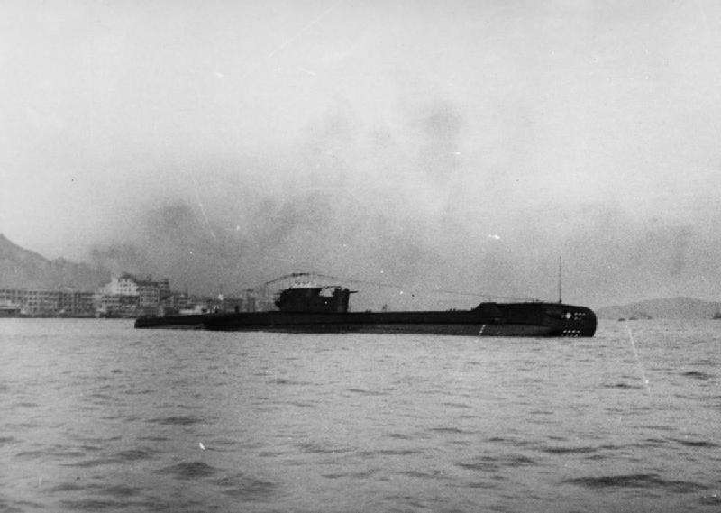 British T class submarine HMS Talent (P337) underway.